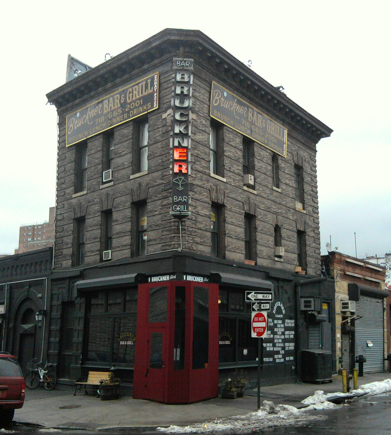 Looking east across Bruckner Blvd and 3d Avenue at Bruckner Bar & Grill on a cloudy afternoon.